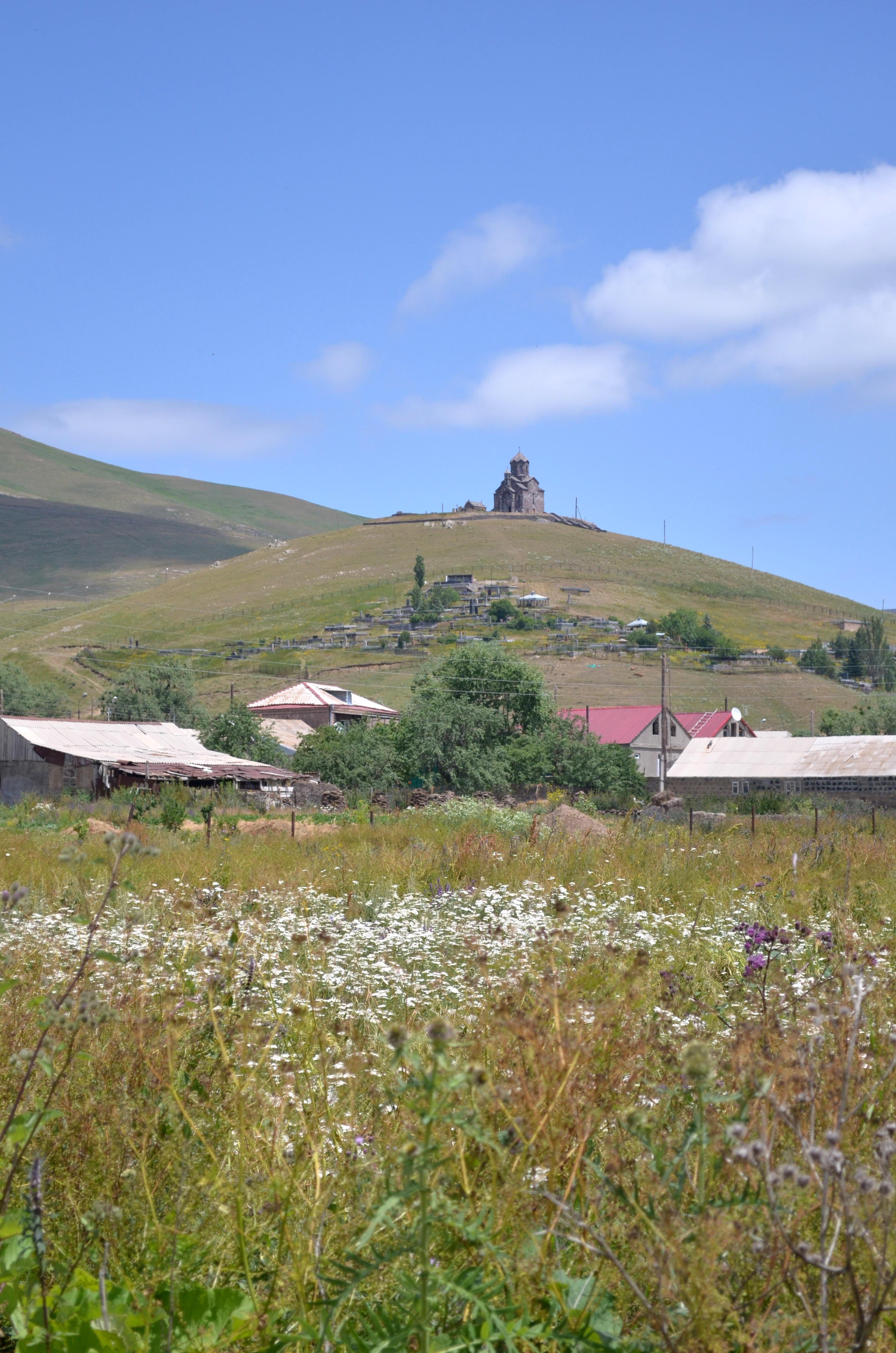 Saint Sargis Church from the village 47/7